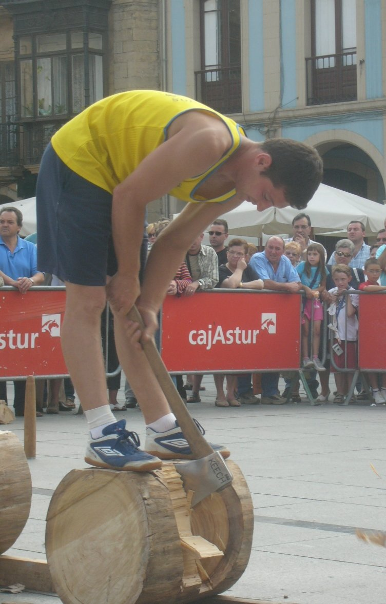 Wood chopping (Interceltic Festival of Avilés - Asturias - Spain)